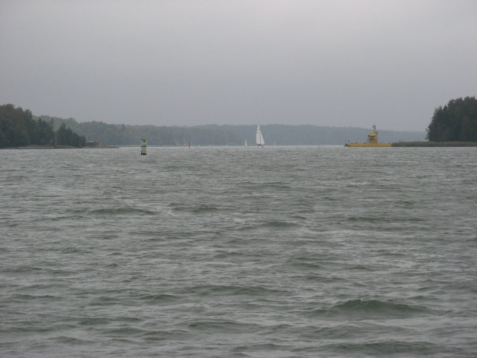 Våno sund between Pargas port (“gate of Pargas”) and “Kyrkfjärden” outside the centre of the town.